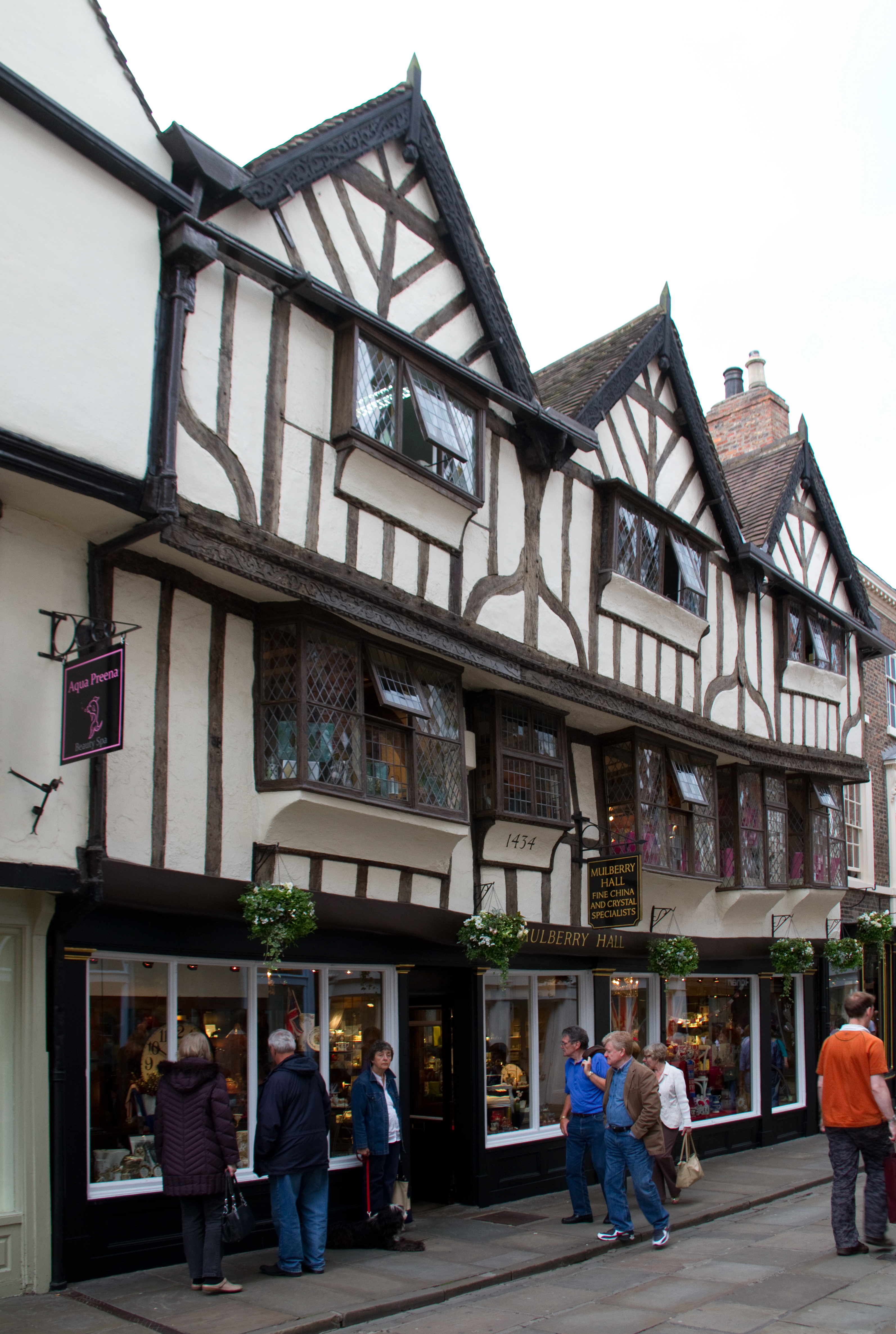 Mulberry Hall